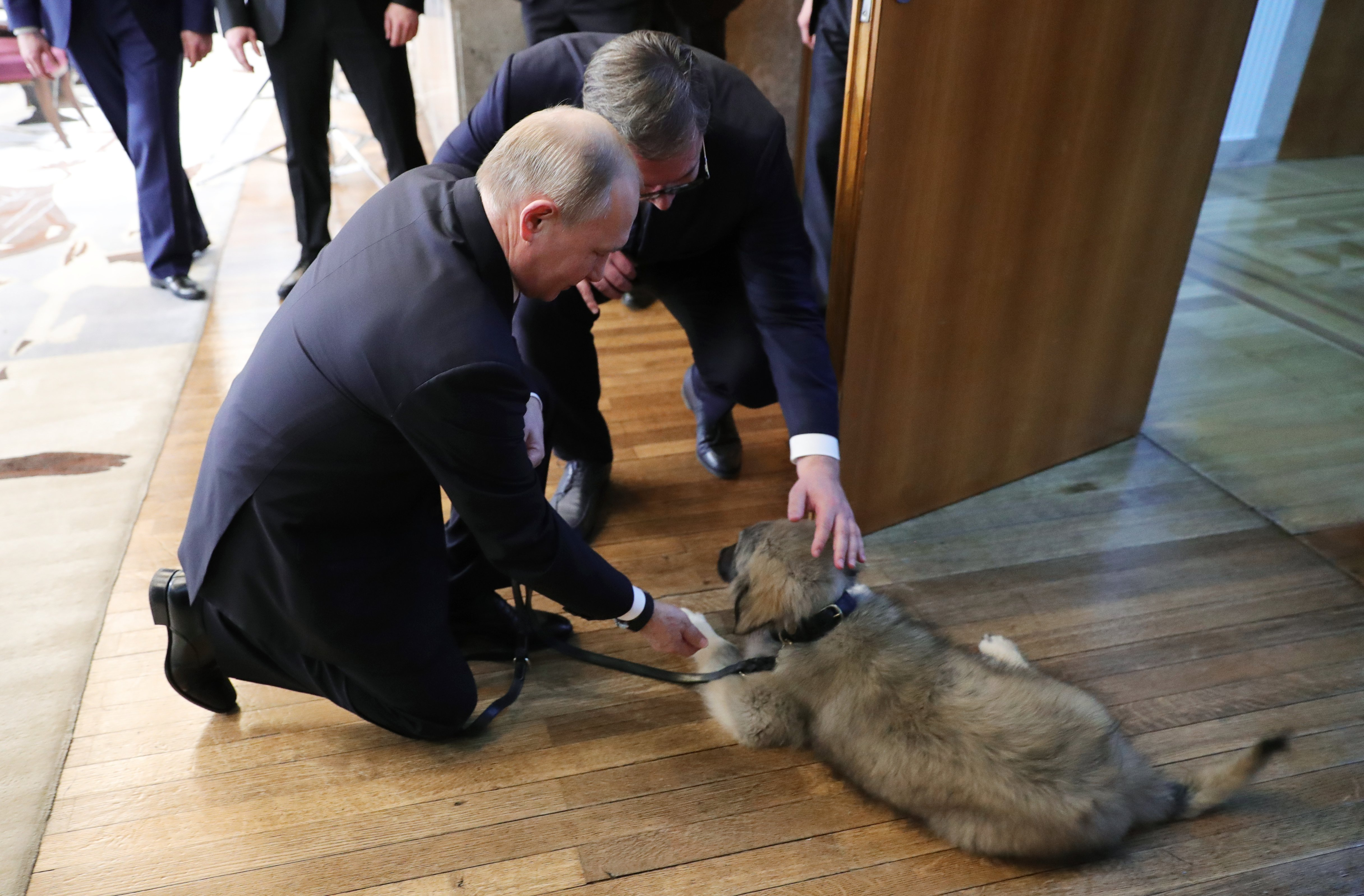 The President of the Republic of Serbia, Alexander Vucic, presented Vladimir Putin with a Sharplanin puppy. Президент Республики Сербии Александр Вучич подарил Владимиру Путину щенка шарпланинской овчарки.